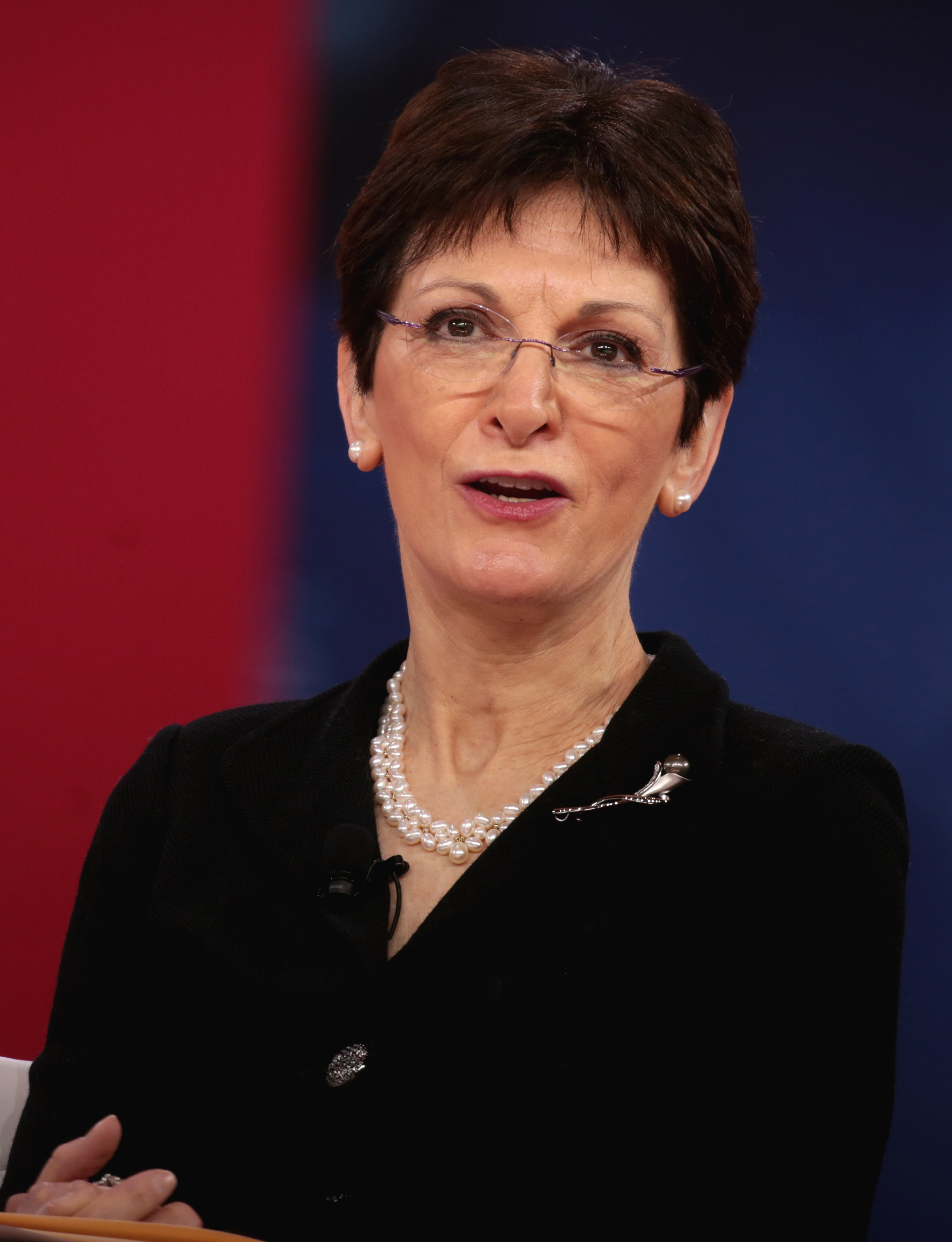 Mona Charen speaking at the 2018 CPAC in National Harbor, Maryland.